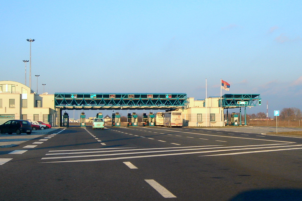 International border crossing between Serbia and Hungary near Horgoš - Serbian side pictured, direction towards Hungary.